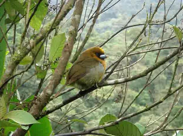 Prong-billed Barbet at the La Paz Waterfall Gardens, Costa Rica.